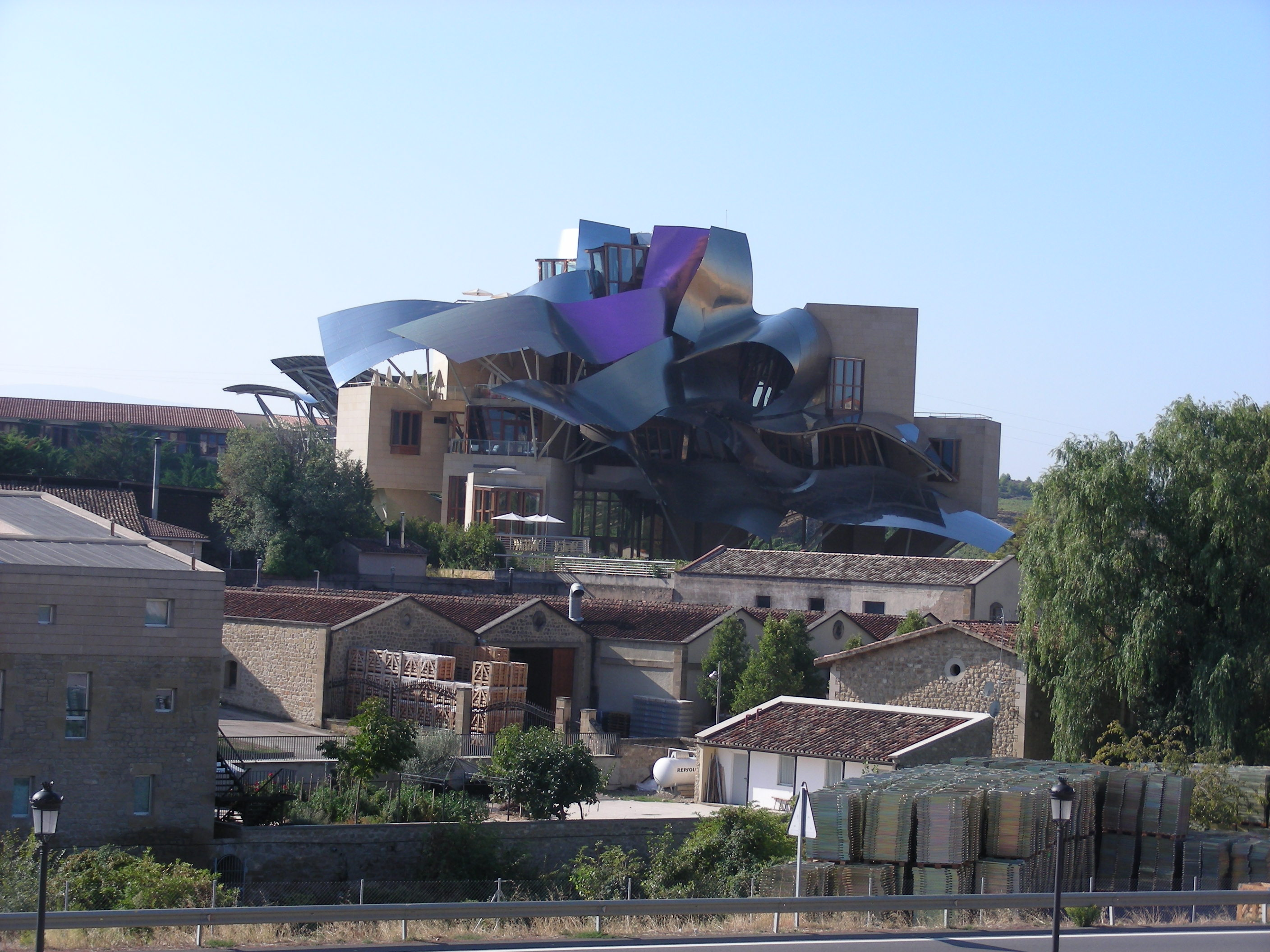 View from the town of Elciego to the holte Marques d Riscal